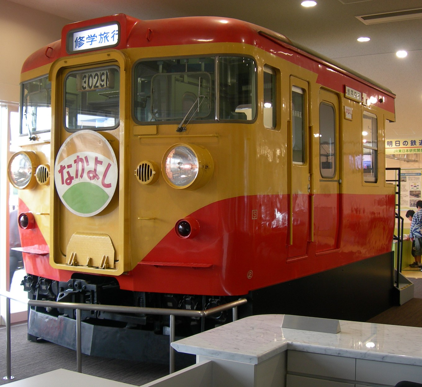 A mock-up of a former JNR 167 series EMU driving cab at the Railway Museum in Saitama